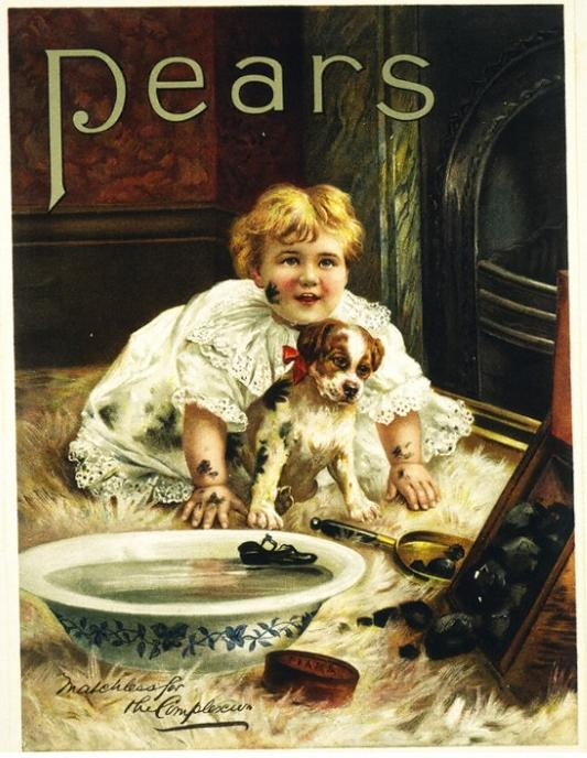 Poster for Pears soap, 1900, A. & F. Pears Ltd. V&A Museum no. E.1064-1919 Techniques - Colour lithograph, inks on paper Place - London, England Dimensions - Height 43 cm Width 32.2 cm Object Type - This is a colour lithograph, or chromolithograph. A lithograph is a picture made by printing from a flat surface (traditionally stone, now often a metal plate), on which the artist draws or paints the original design with a greasy substance like chalk. The surface is next prepared, moistened and inked; the greasy printing ink adheres to the design, which is then printed onto a sheet of paper. To make a colour lithograph, a separate printing surface is required for each colour: this chromolithograph was printed from no fewer than 24 colour blocks. Trading - The trademark product of A. & F. Pears was its transparent amber soap, which was developed and promoted as a great improvement on the harshness of contemporary soaps by the company's founder, Andrew Pears, at the turn of the 18th century. In the mid-19th century, the company took on a new partner, Thomas J. Barratt to stave off fierce competition and to improve sales performance. He devised a series of expensive and original publicity schemes, the most famous of which was the adaptation of John Everett Millais' painting Bubbles as an advertisement for Pears Soap. He also promoted art through the pages of Pears Annual (published 1890-1921, and price six pence until 1915). Presentation plates like this one were given away as a separate package with the Pears Annual.